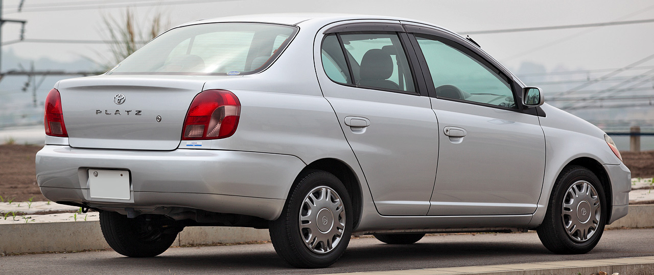 Toyota Platz 1.0F Premium Ver. ( Japan spec CP10 series '99/8 - '02/7)